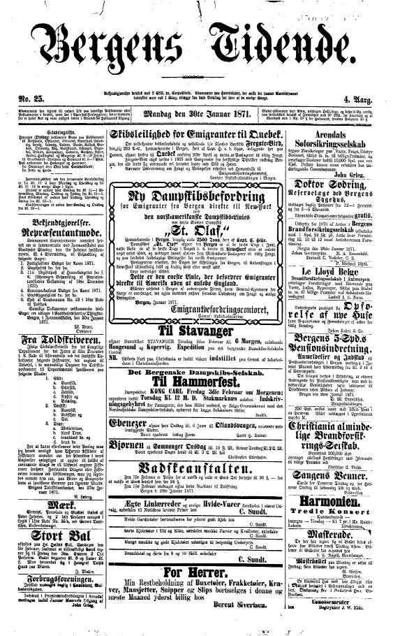 The front page of the norwegian newspaper Bergens Tidende from the 30th of january 1870.